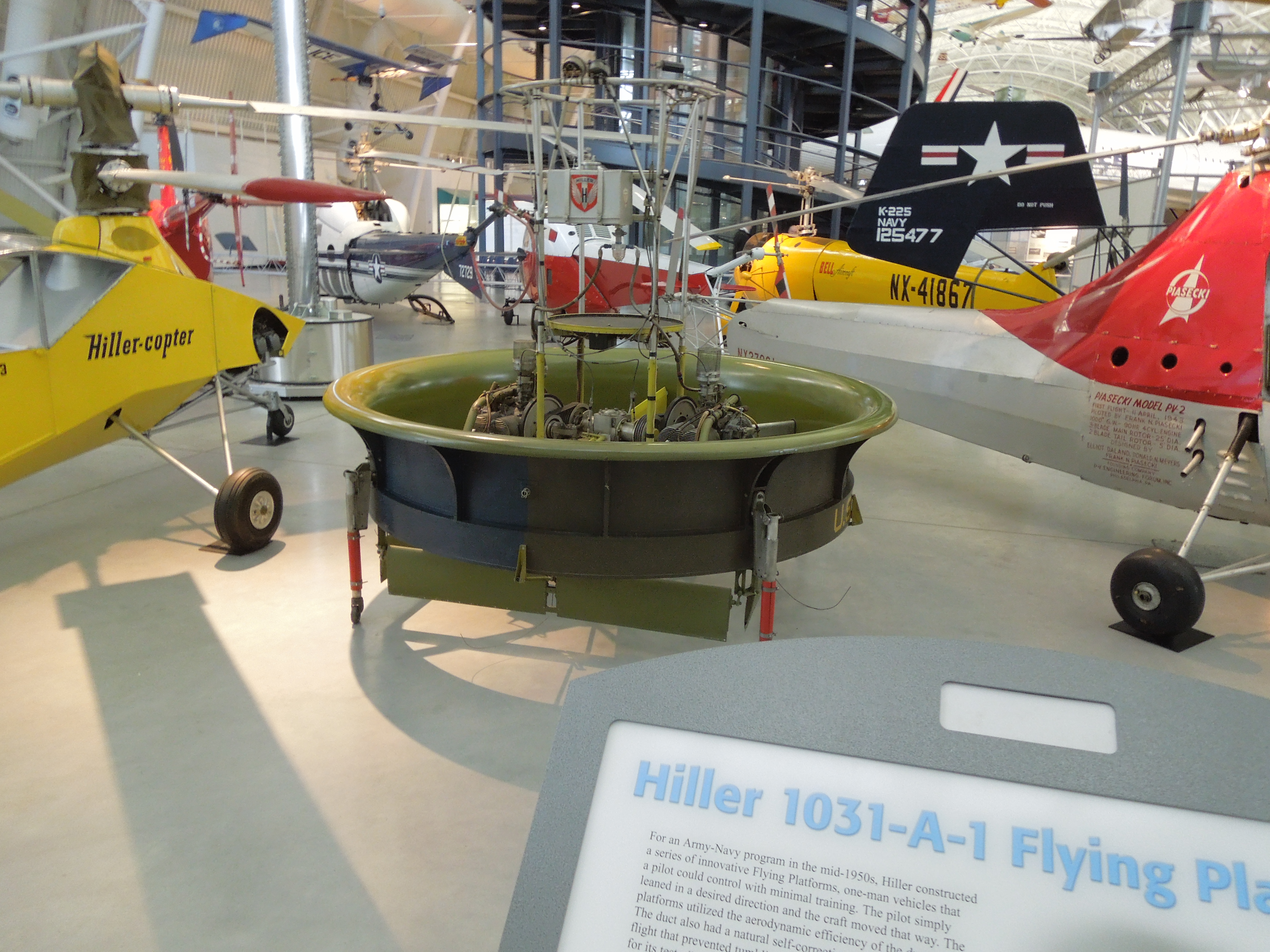 clearer picture of the item being described in the article. Taken by me.